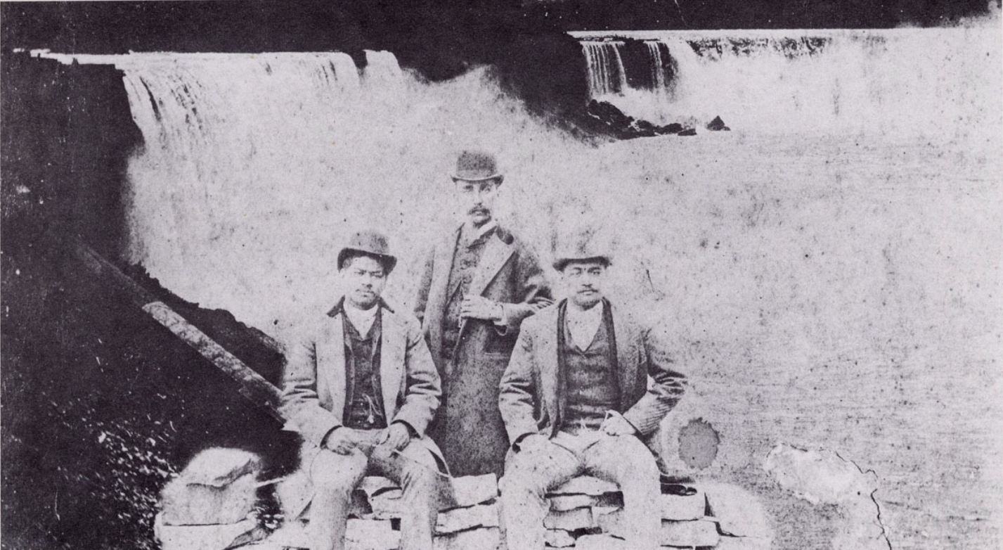 James Washington Lonoikauoalii McGuire, Special Equerry to Queen Kapiolani, pictured at Niagara Falls with Prince Jonah Kūhiō Kalanianaʻole (left) and Prince David Kawānanakoa (right).